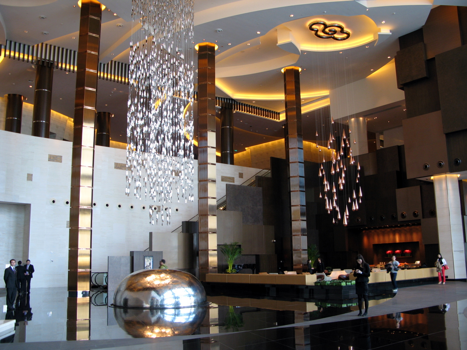 The City of Dreams Hyatt Macao Lobby